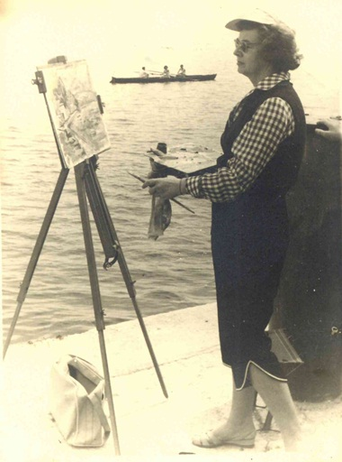 rachelceglapainter